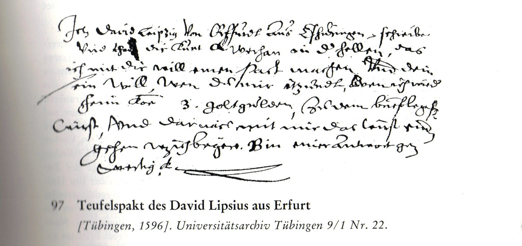 Devil's pact of David Lipsius at Tübingen